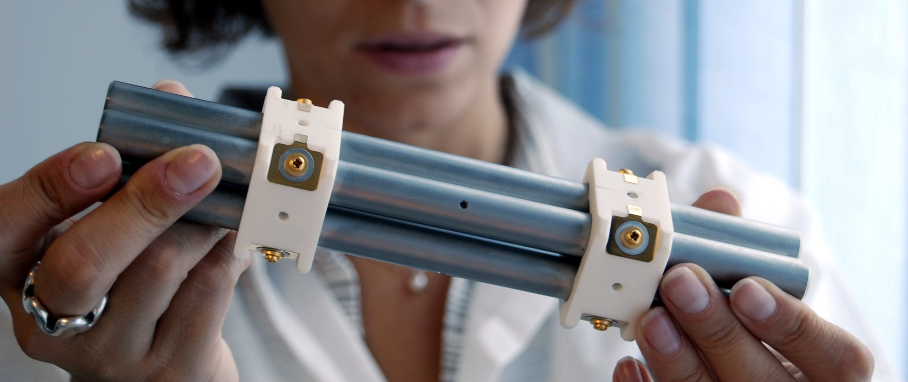 Mass spectrometer hyperbolic quadrupole